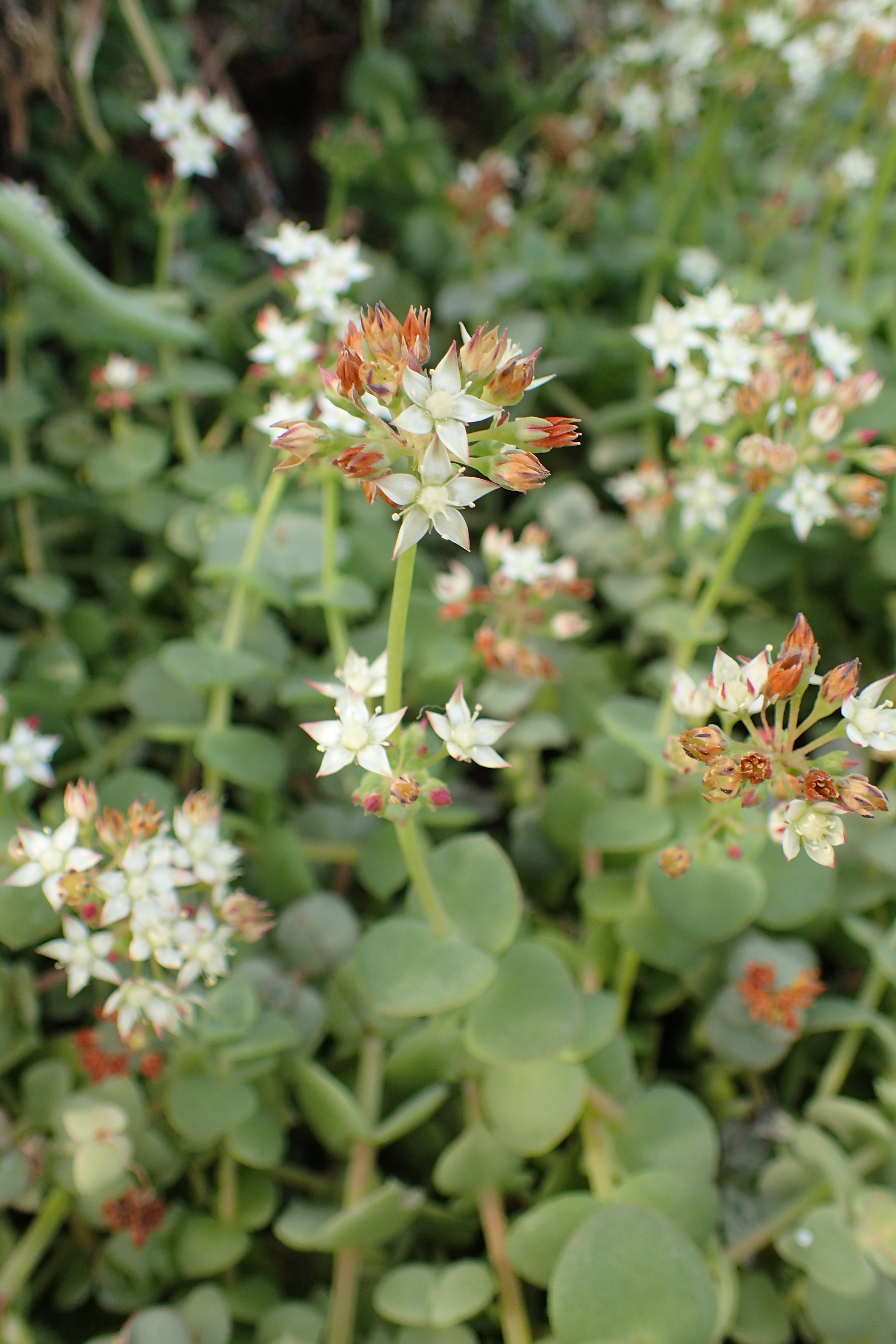 Crassula pellucida in the Botanischer Garten, Berlin-Dahlem